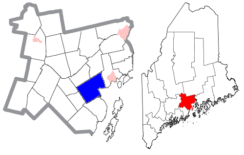 Map of the divisions of Waldo County, Maine, United States, with the city of Belfast highlighted in blue. Towns are white, and pink areas are census-designated places within towns.